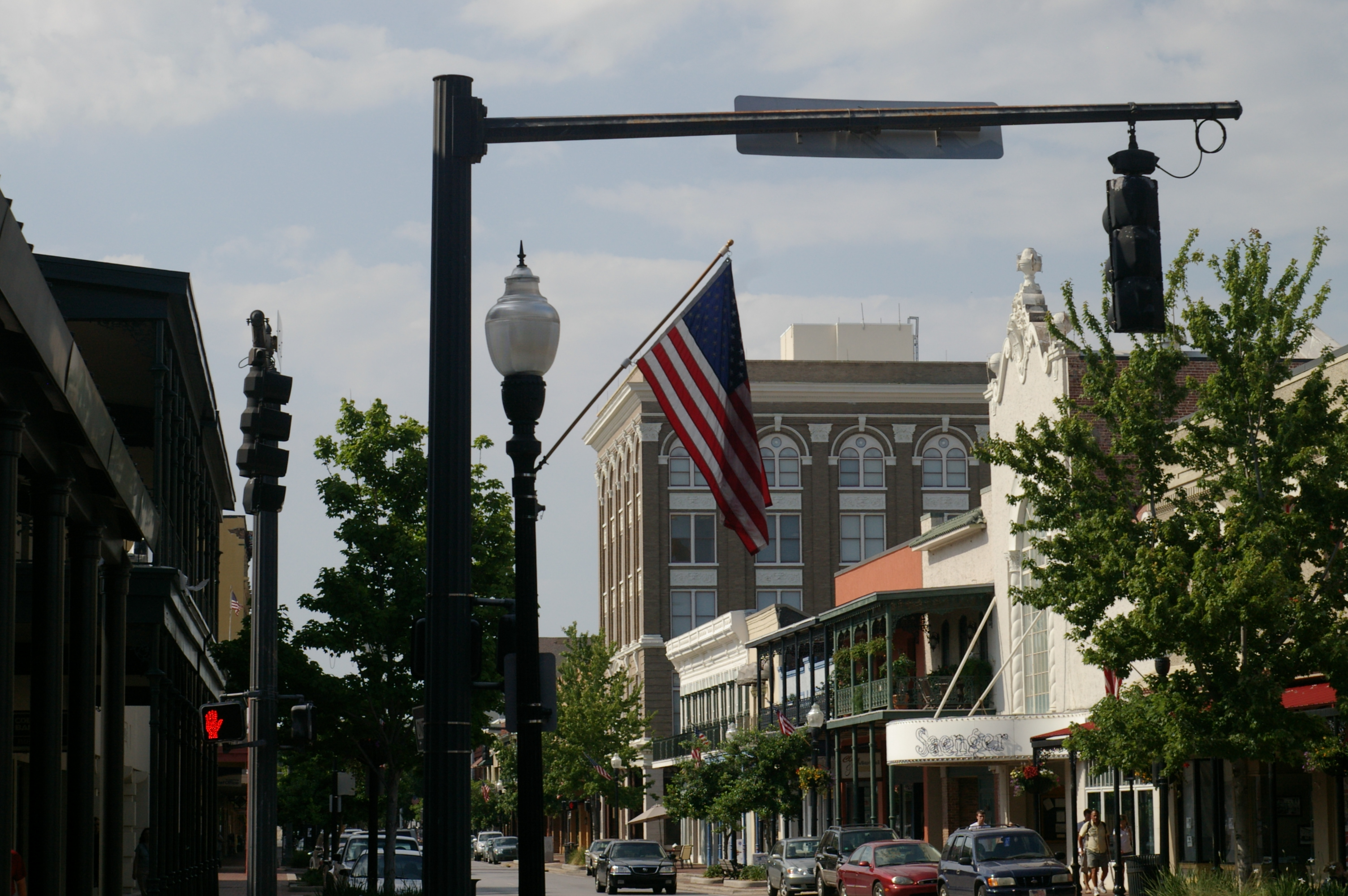 The Art District in downtown Pensacola, Florida, United States.